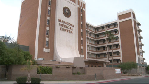 Maricopa Medical Center - Phoenix, Arizona